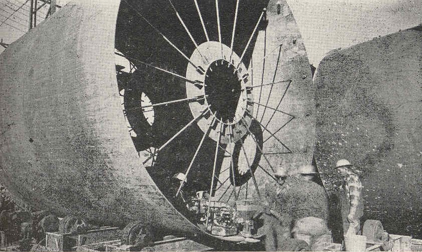 Welders adding the longitudinal seams of the power conduit for South Holston Dam. The dam, completed in 1950, impounds the South Fork Holston river near Bristol, Tennessee, USA.